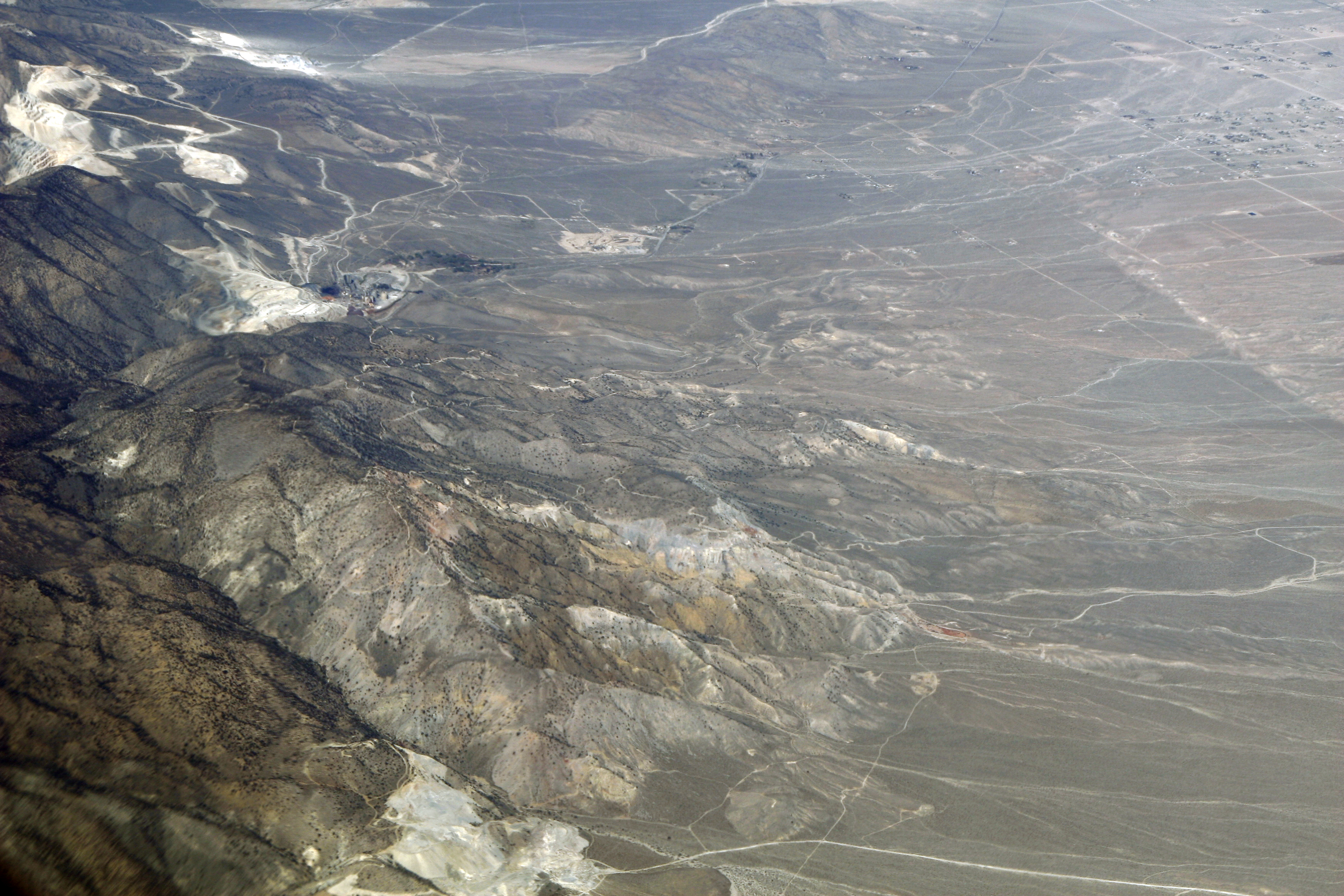 Where the San Bernardino Mountains meet the Mojave Desert.